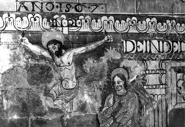 Frescos of Crucifixion of Christ , Ayerbe